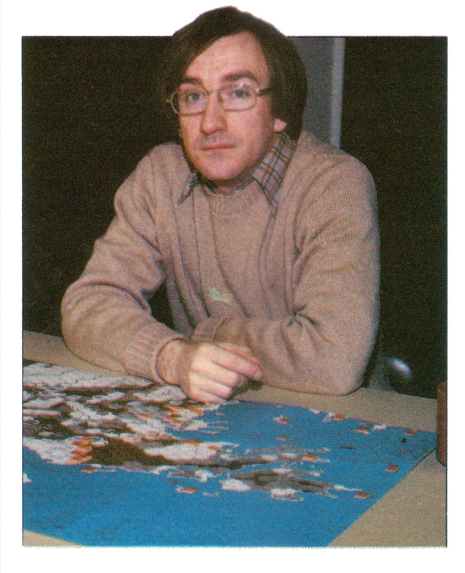 Paul R. "Rich" Banner promotional photograph as Art Director for Game Designers' Workshop.